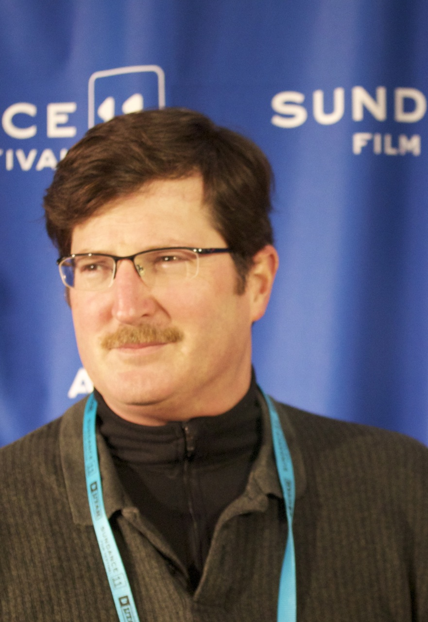 John Crissey at the Filmmakers Lounge.